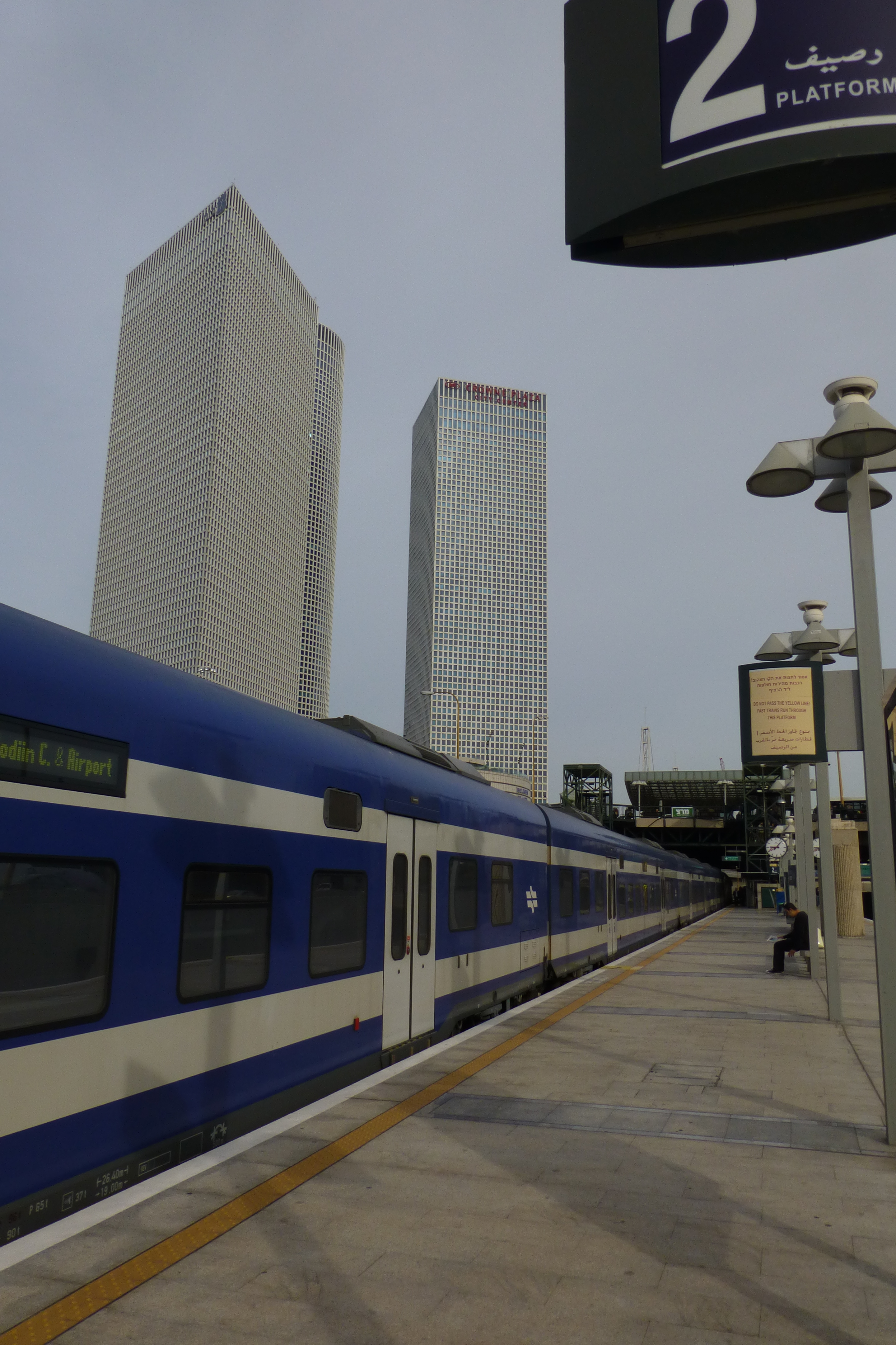 Azriely Towers